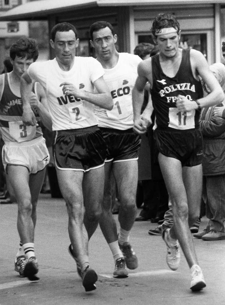 Sandro Bellucci (3), Giorgio Damilano (2), Maurizio Damilano (1) and Raffaello Ducceschi (11) in race in Italy in 1970s..